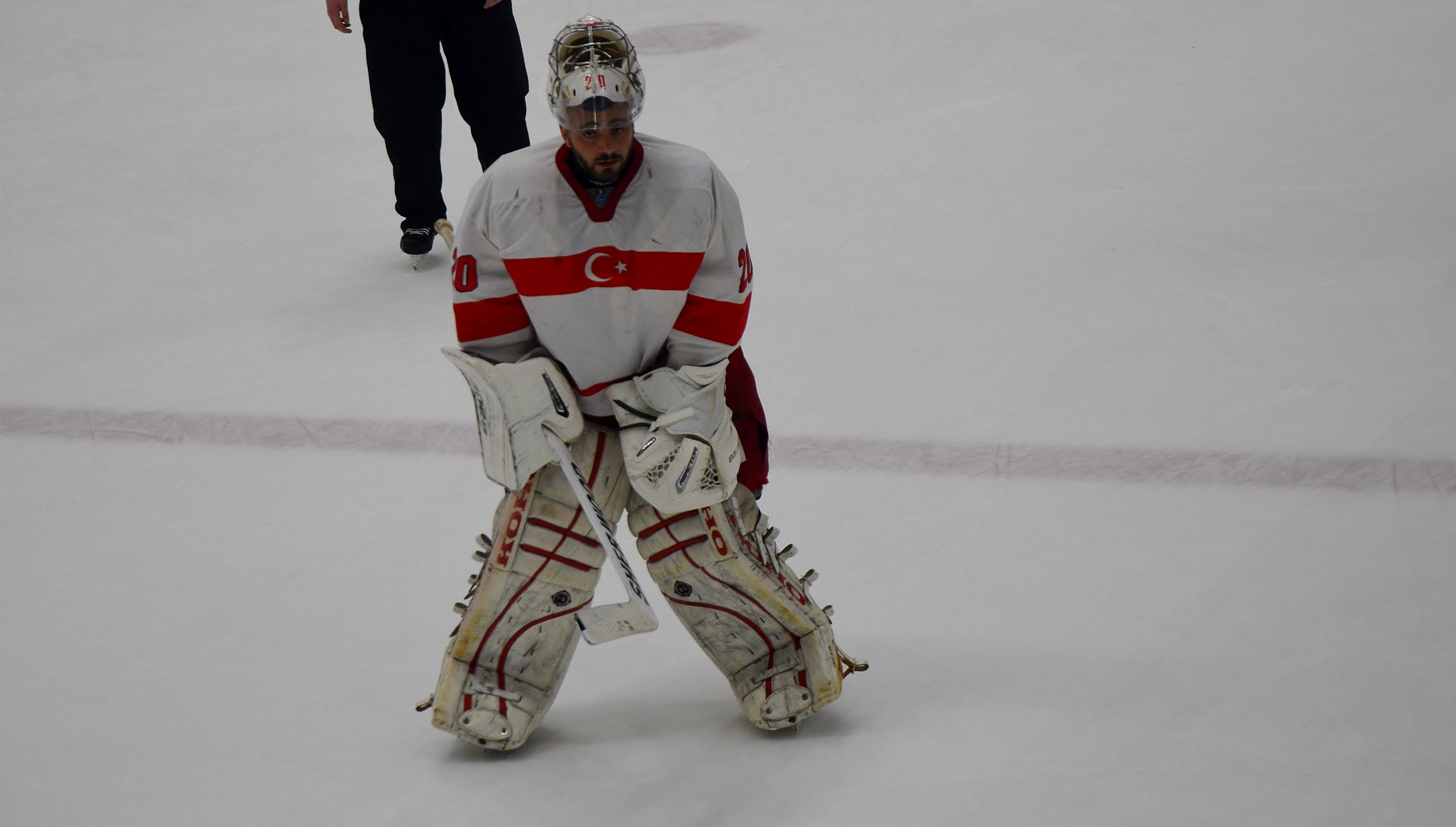 Erol Kahraman for Turkey natiomal team at the 2016 IIHF World Championship Division III match against Hong Kong